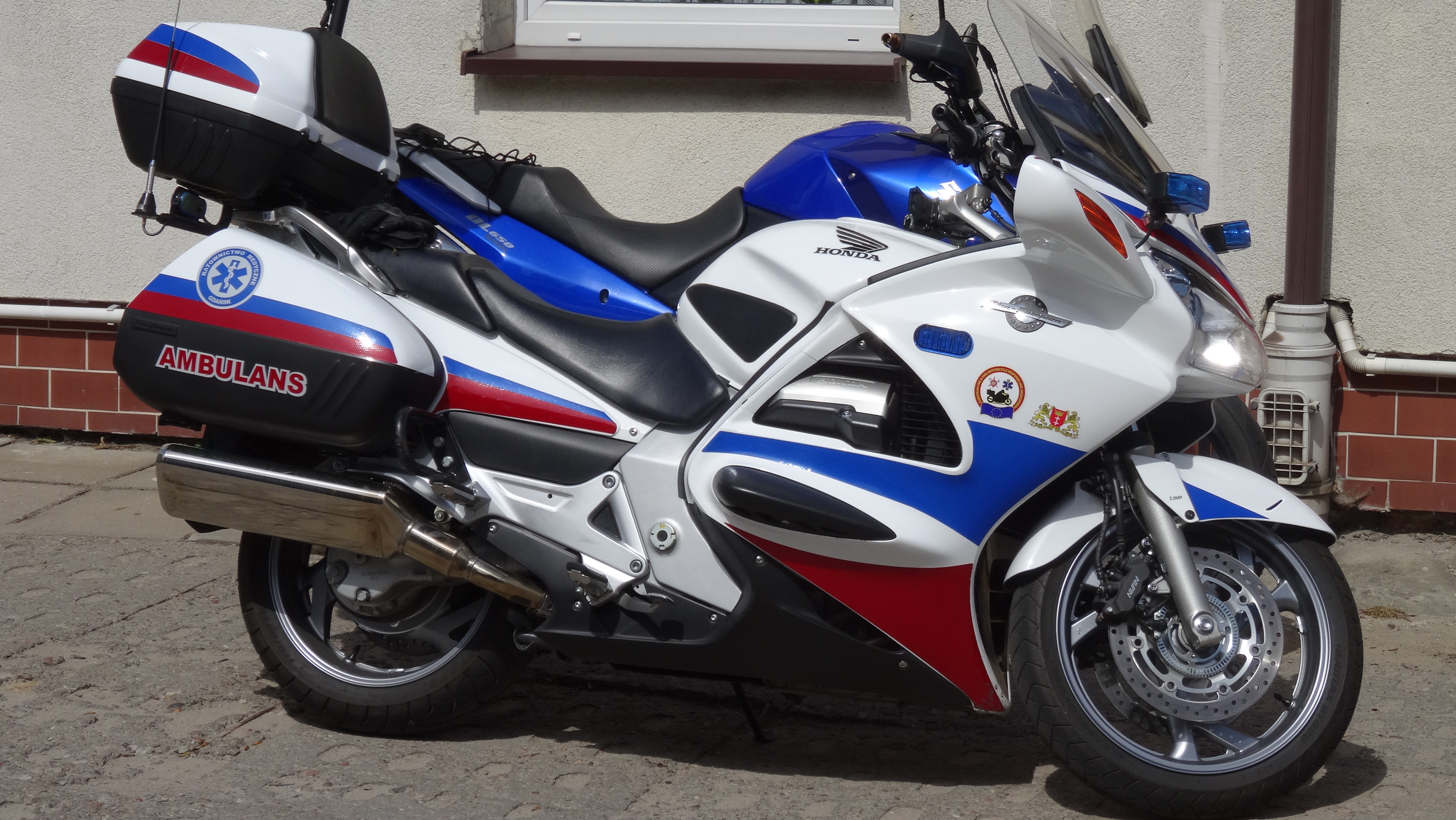 Motorcycle ambulance Honda Honda ST 1300 Pan-European, Gdańsk, Poland